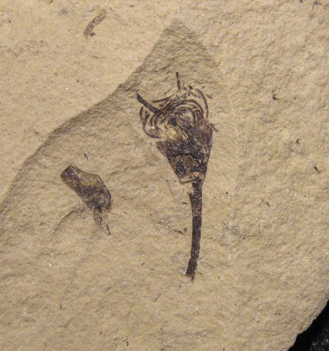 View of a Prunus cathybrownae flower showing stamens and gynoecium. Ypresian, Latest Early Eocene; Tom Thumb Tuff member, Klondike Mountain Formation, Republic, Washington, U.S.A. Stonerose Interpretive Center, Republic, Ferry County, Washington, U.S.A. Collection